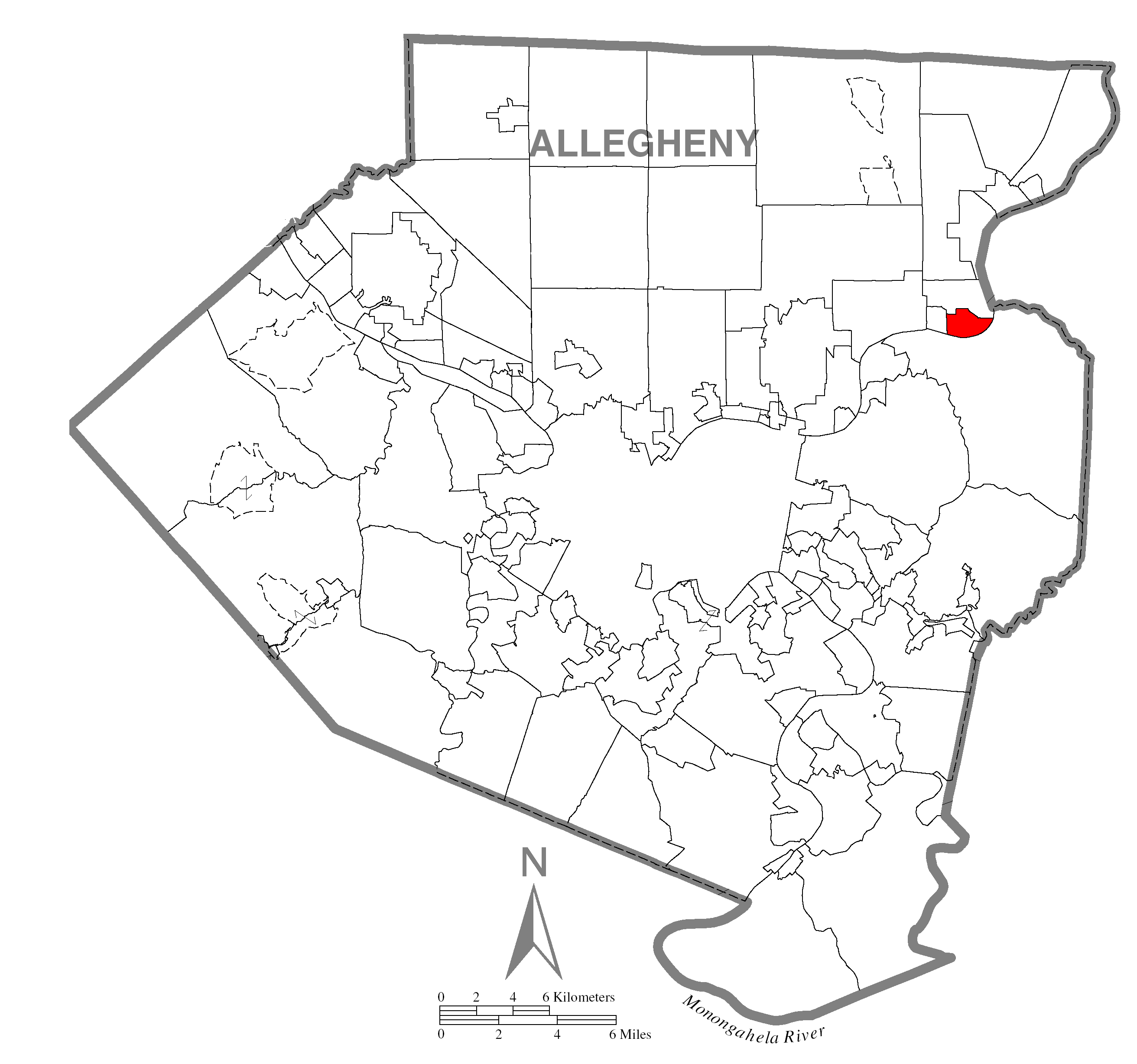 A map of Allegheny County showing Springdale, Pennsylvania (alternate) highlighted on the map.